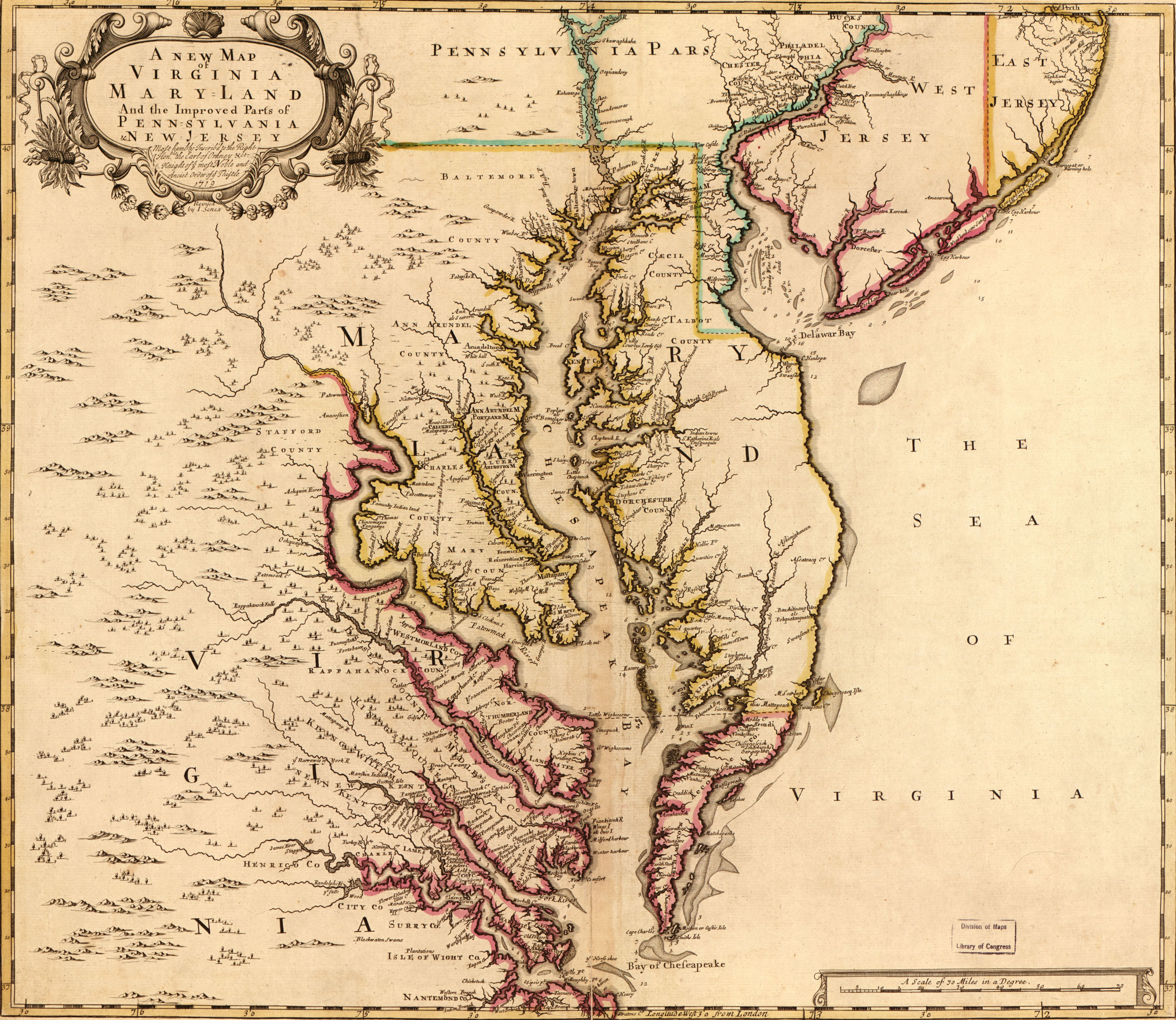 Relief shown pictorially. Watermarks: AB; [fleur-de-lis]. Available also through the Library of Congress Web site as a raster image. LC copies imperfect: Fold-lined, torn at fold line, mounted on cloth backing. Statement of dedication at foot of title: Most humbly inscrib'd to the Right Hon. the Earl of Orkney &ct., Knight of ye most Noble and Anciet [sic] Order of ye Thistle. Includes embellished title cartouche. 3 copies